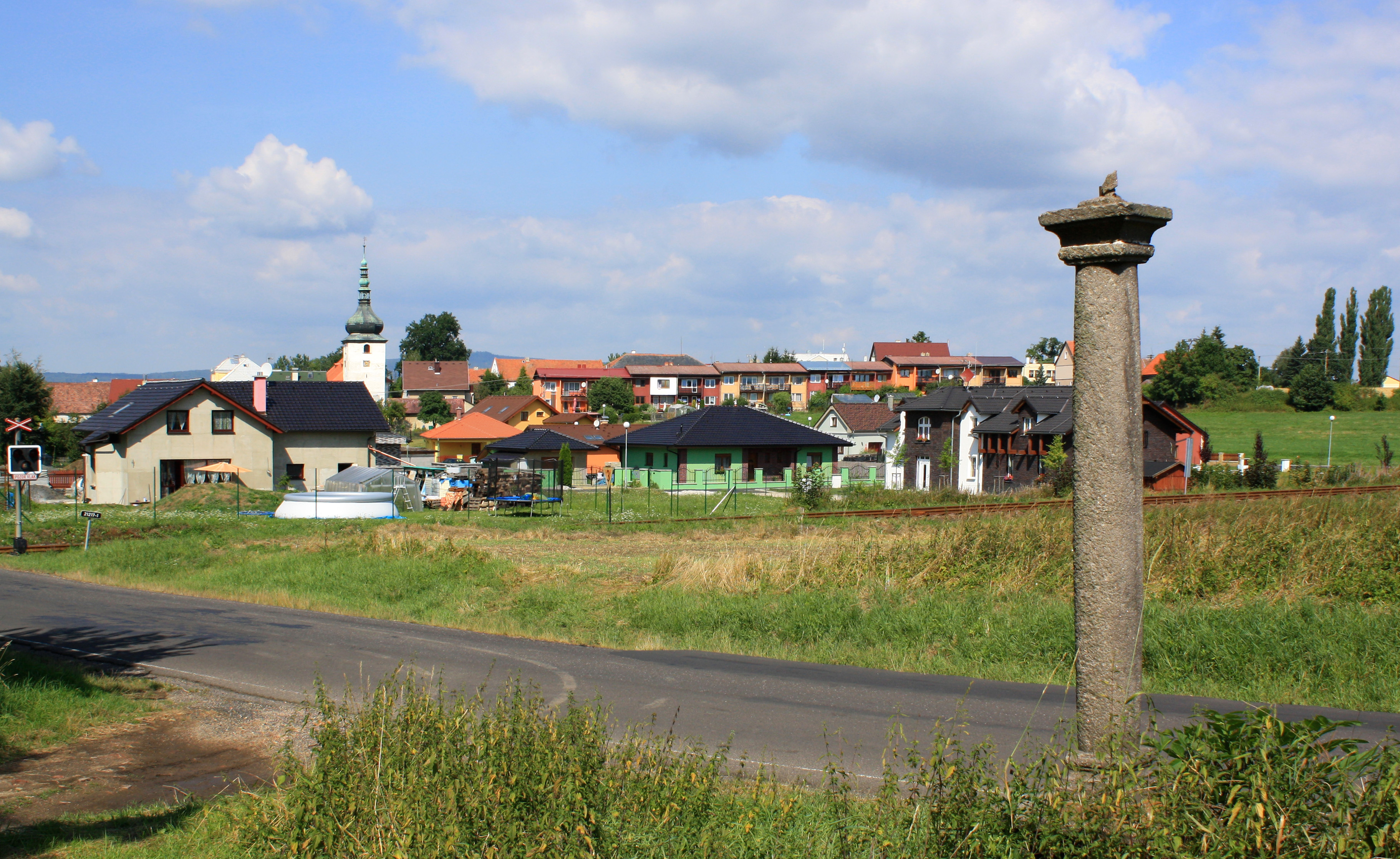 East view to Třebeň village, Czech Republic